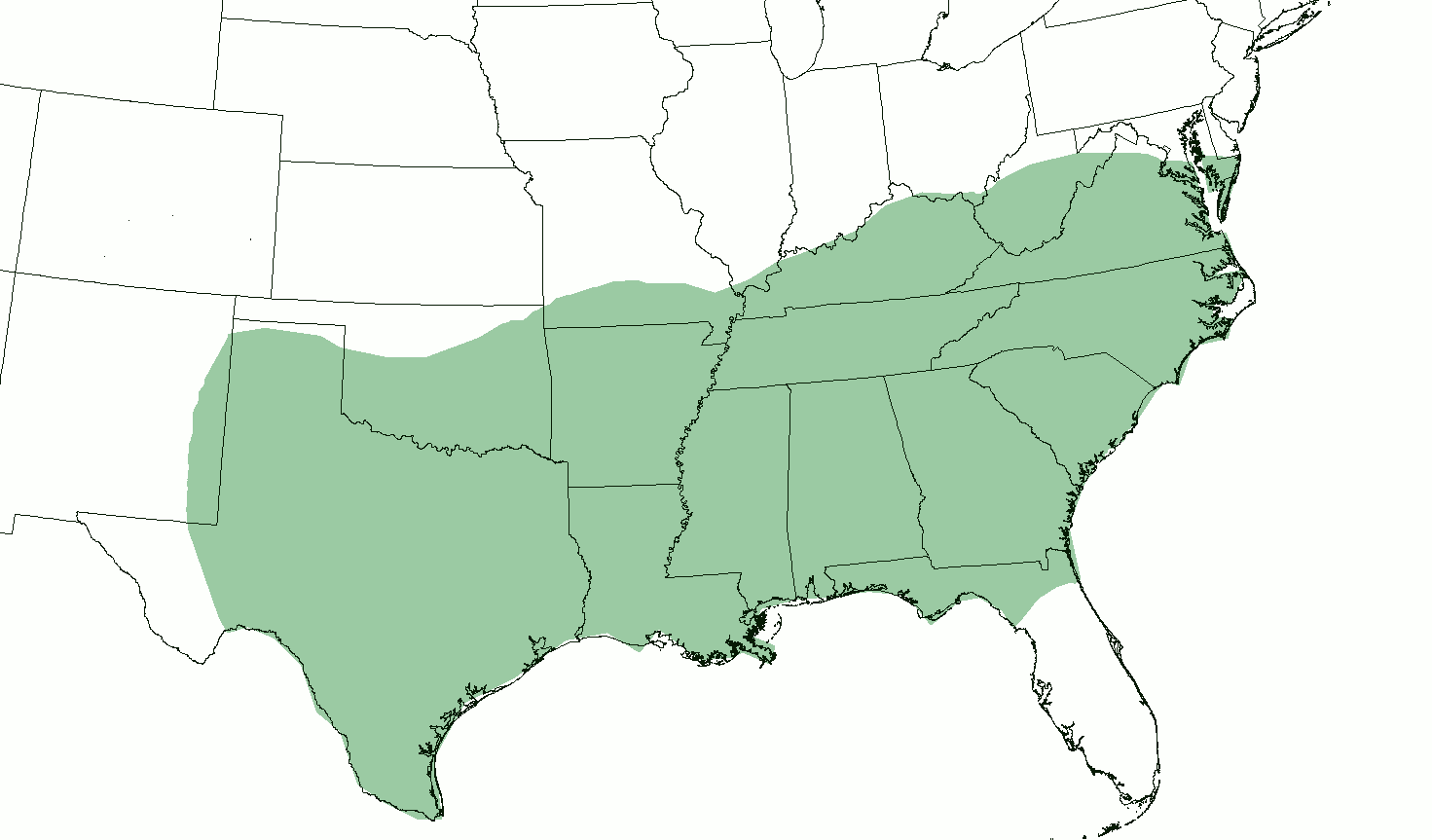 A map of the approximate extent of Southern US English.